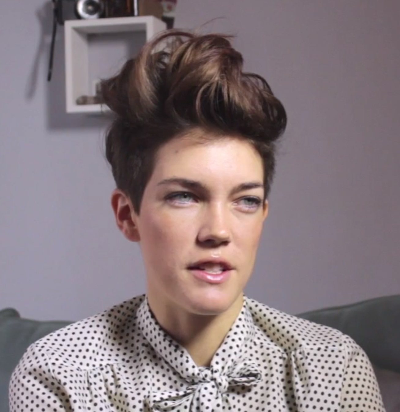 Celia Rowlson-Hall is a Manhattan-based filmmaker who has directed several short films including Prom Night, Three of a Feather, and Unto the Locusts for Metal Magazine. She has also worked as a choreographer for other short film and music video projects. For more about Celia visit her website at To see more New York Filmmaker Interviews go to